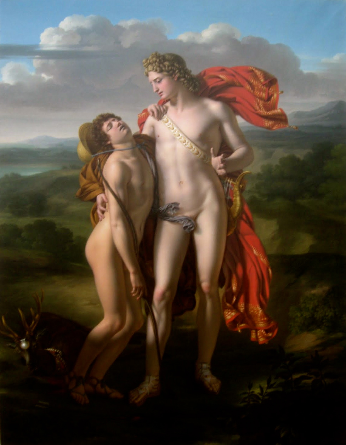 Apollo and Cyparissus